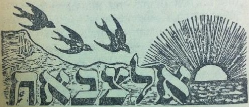 al-sabah, judeo-arabic tunisian daily newspaper